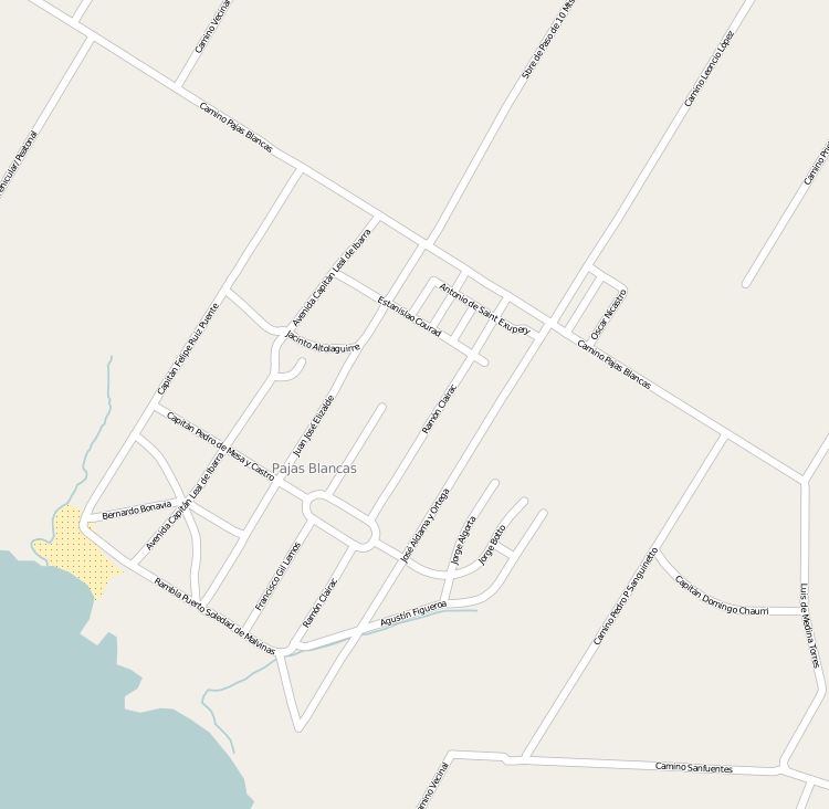 Street map of Pajas Blancas, Montevideo, exported from OpenStreetMap. I added shading to delimit the barrio. This map may be incomplete, and may contain errors. Don't rely solely on it for navigation.